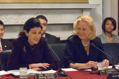 Ranking Member Olympia Snowe (R-ME) and Chairwoman Mary Landrieu (D-LA) address the Small Business Committee.